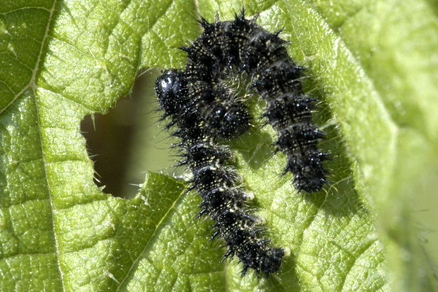 Picture taken in Commanster, Belgian High Ardennes . Species: Vanessa atalanta caterpillars